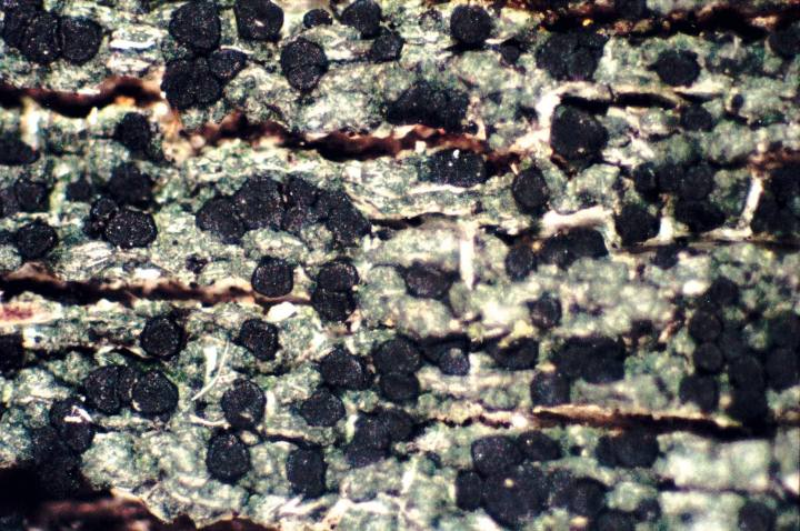 Trapeliopsis flexuosa Coppins & P. James, 1984 (photograph of a herbarium specimen taken through a dissecting microscope (x6) showing a grayish green thallus and nearly black apothecia) Growing on wooden fence railing along the bike trail of the NE Branch of the Anacostia River, E of the College Park Airport, Prince George's County, Maryland, USA; collected and identified by E.C. Uebel (No. 579, 3 Jan 2006).